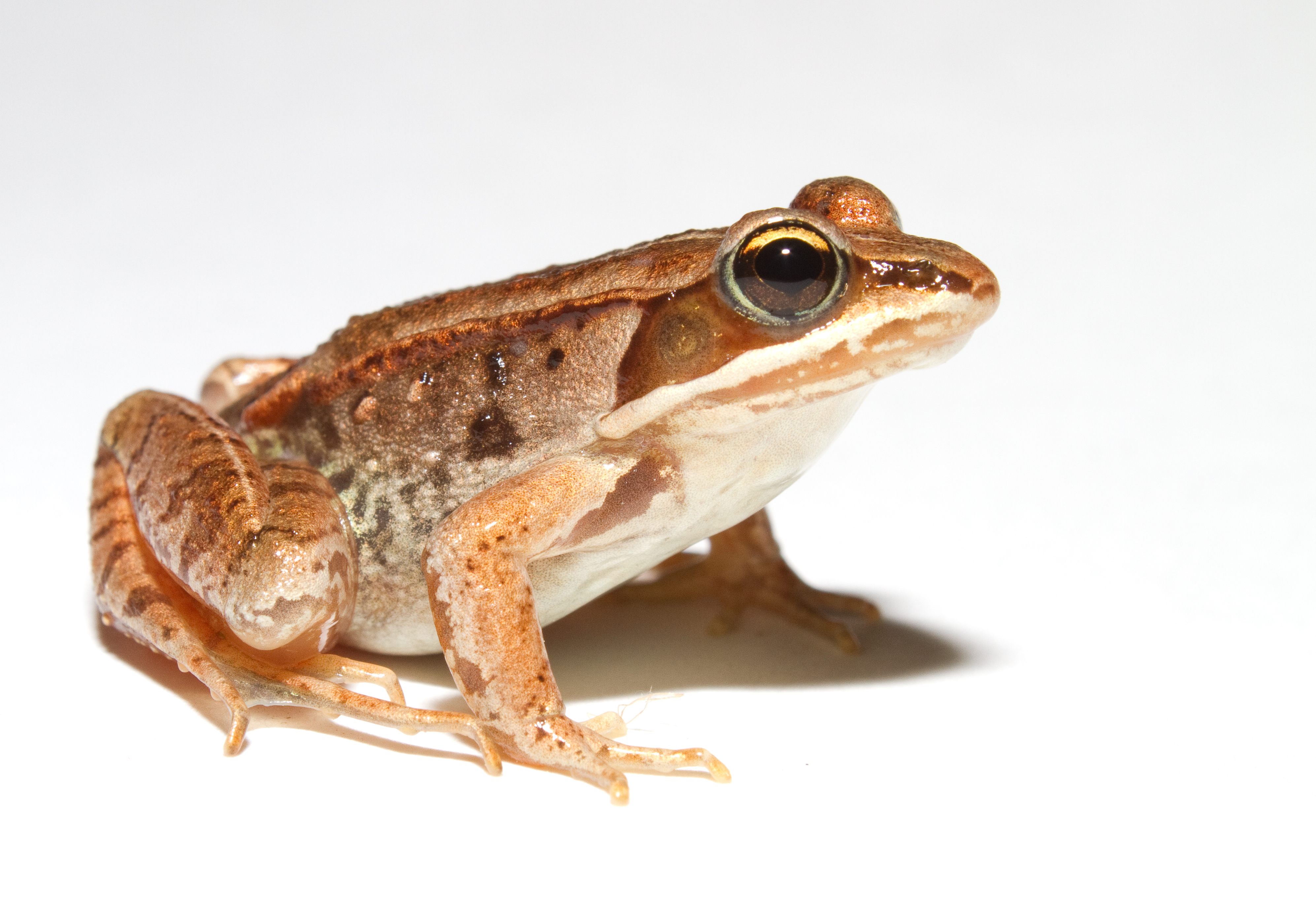 Lithobates sylvaticus (Woodfrog)